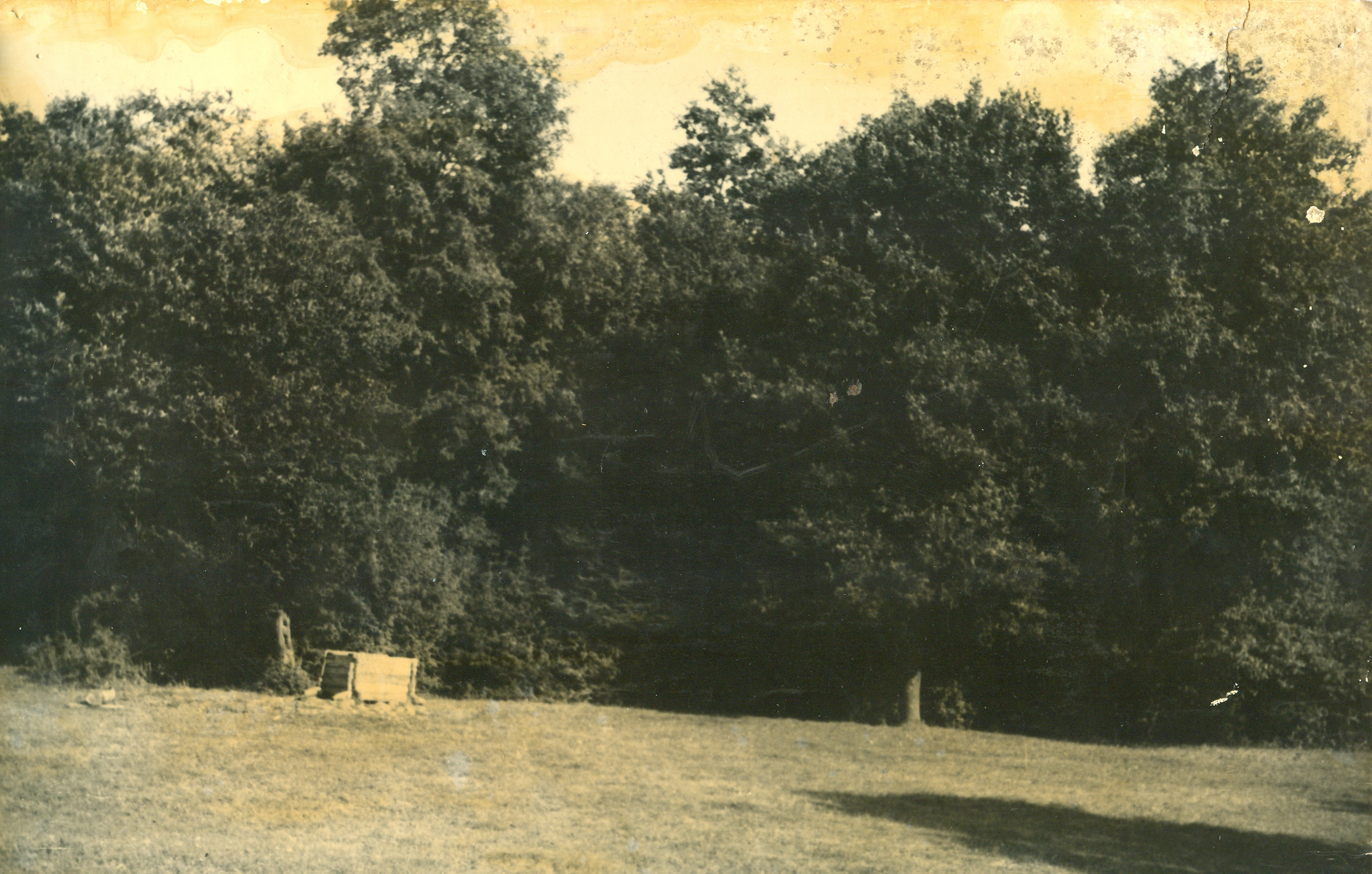 Šuljevac is the place where the Krajina Partisan Detachment was formed Srpski (latinica): Šuljevac mesto gde je formiran Krajinski partizanski odred